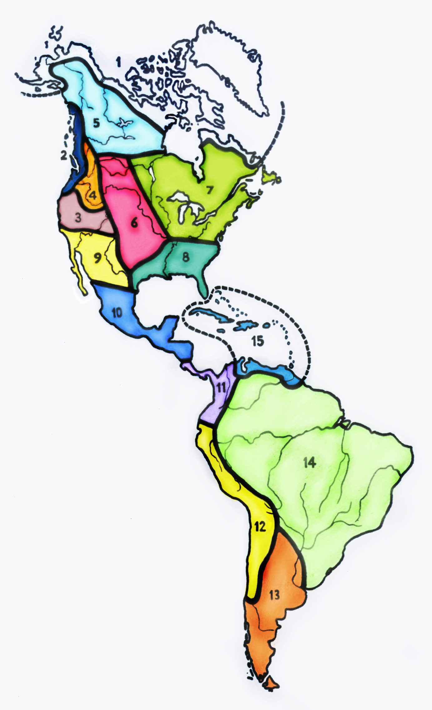 American Cultural Area (color map) A. L. Kroeber, 1923